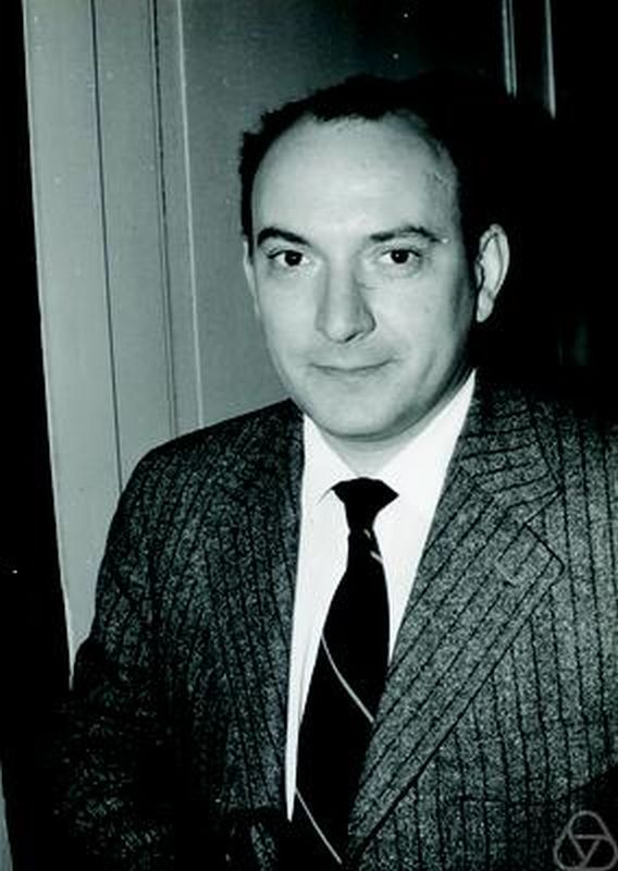 Radu Theodorescu, Oberwolfach 1971